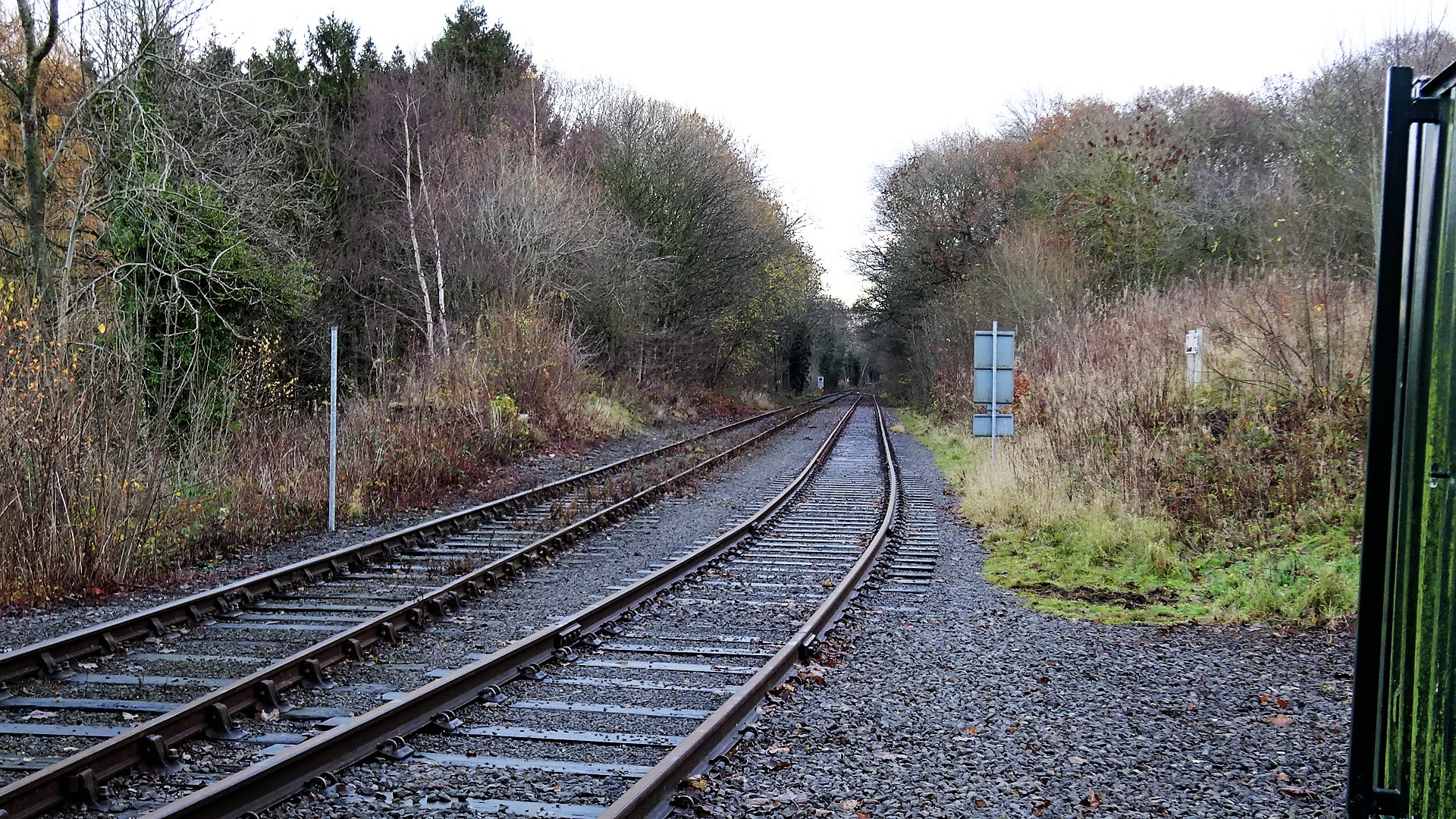 Constable Burton railway station, Richmondshire, North Yorkshire - passing loop. View east towards Bedale.